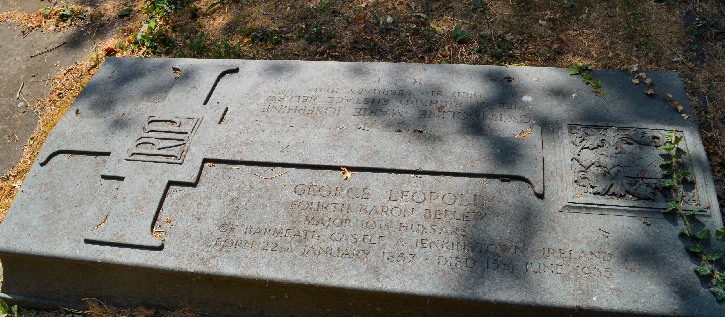 St Mary Magdalen, Mortlake,Baron George Leopold d1935. 4th Baron Bellew (1857–1935)